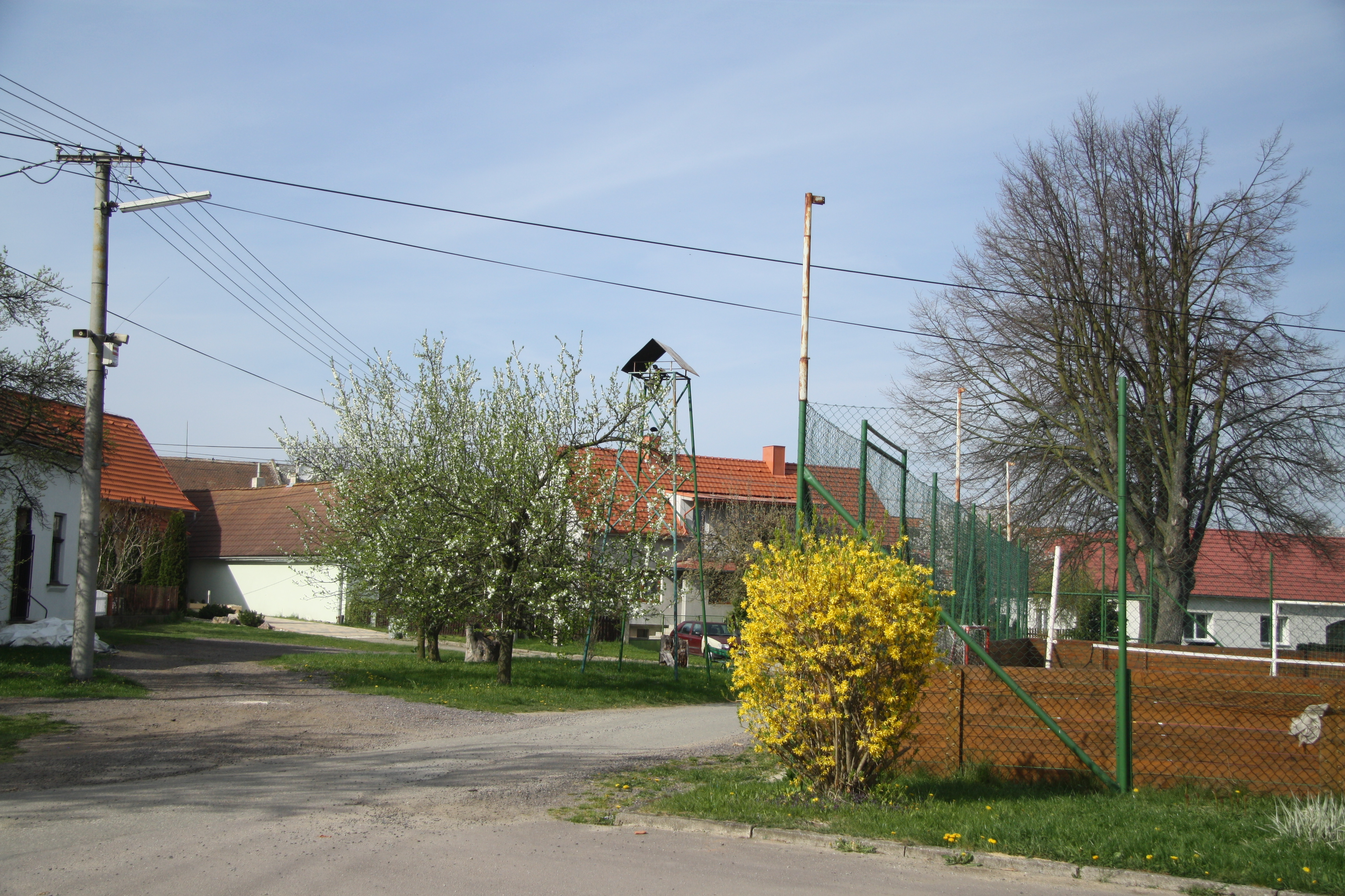 Center of Dolní Lažany, Třebíč District.